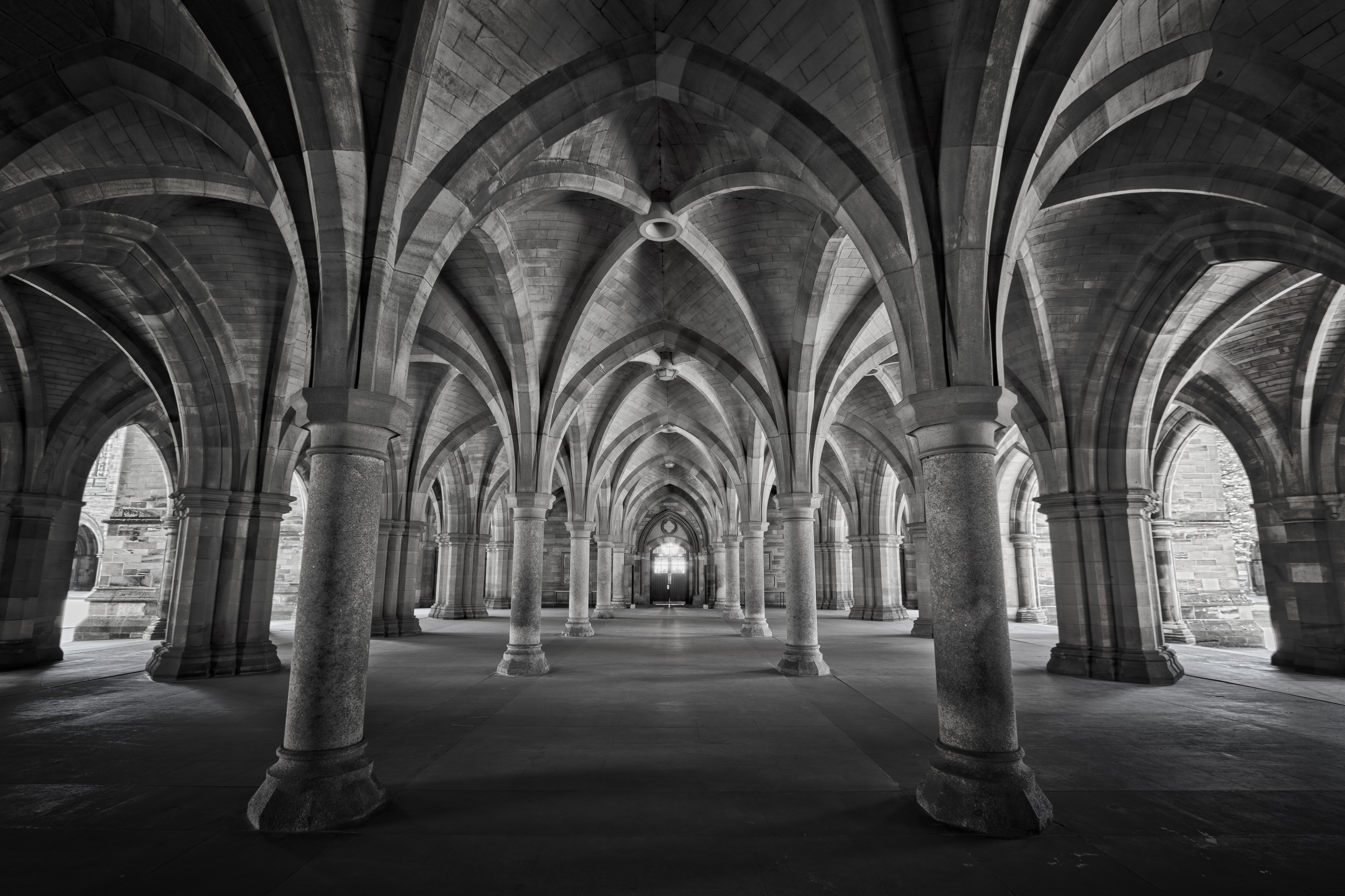 Here is an hdr photograph taken from the Cloisters inside The University of Glasgow. Located in Glasgow, Scotland, UK.